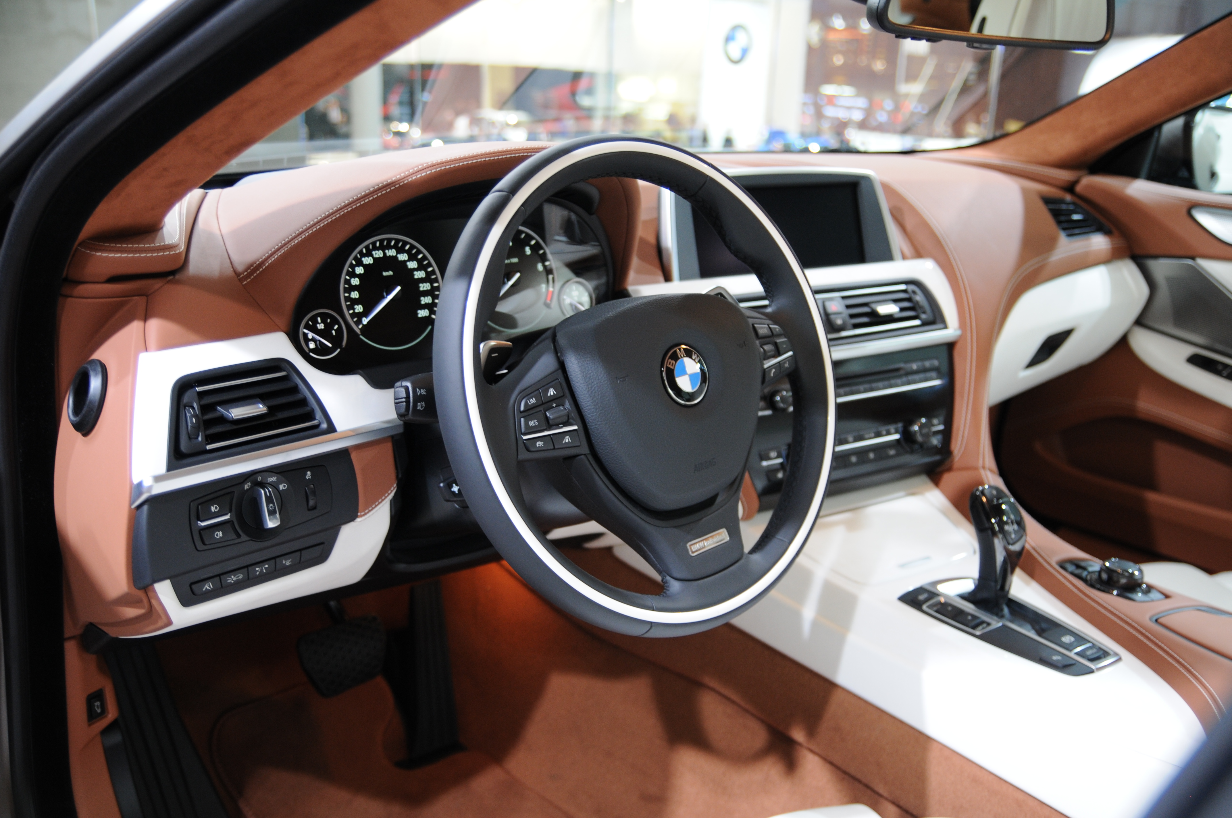 Geneva Motor Show 2012 (photos taken on the second press day)